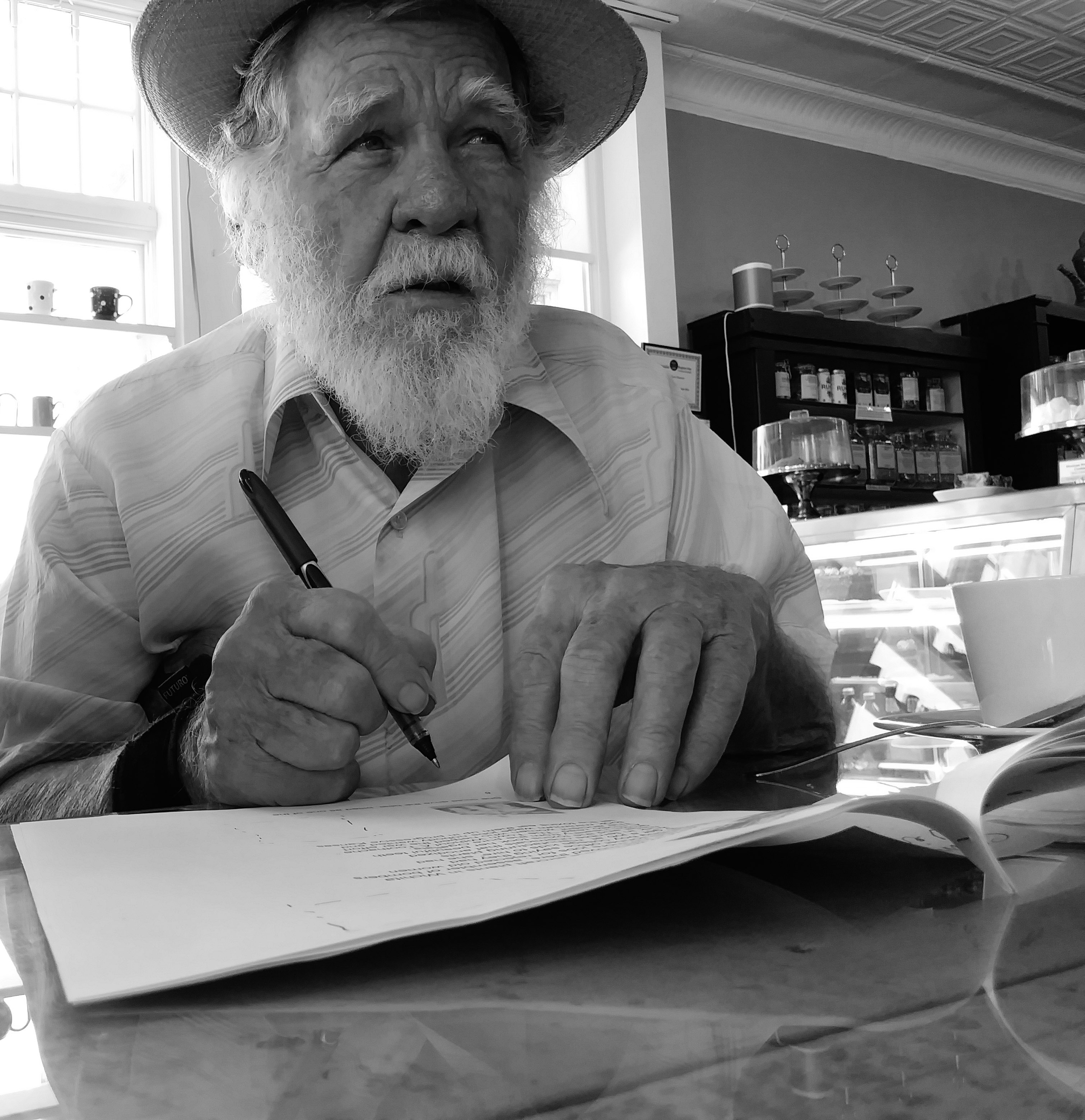 Photo of Charley Plymell by Andrew Roberts, 2017